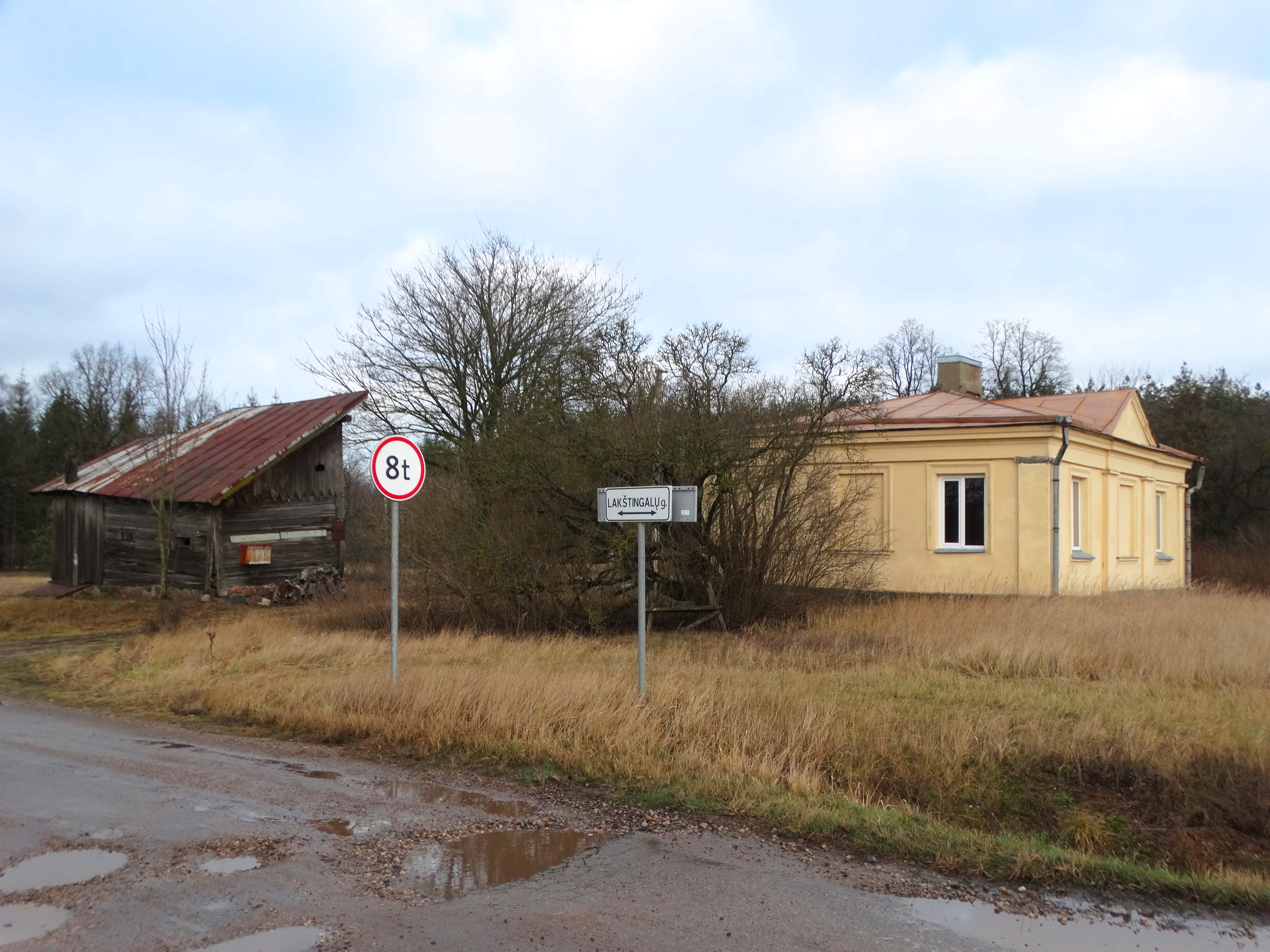 Kaušanka, Jonava District, Lithuania